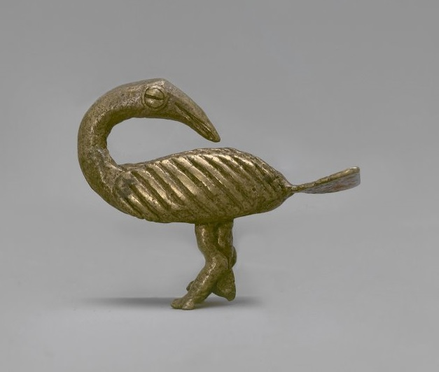 Gold was extremely important in the economic and political life of the Akan kingdoms of southern Ghana and Côte d'Ivoire. Until the mid-nineteenth century, gold dust was the primary form of currency in the region. In order to measure precise amounts of gold, an elaborate system of weights, usually made of cast brass, developed by the seventeenth century. Gold weights took many forms: simple geometric shapes; animals, such as leopards or birds; objects, such as chairs or swords; and human figures. The figures, animals, and objects are often associated with proverbs. The sankofa bird, with head turned backward, represents the proverb “One must turn to the past to move forward.”